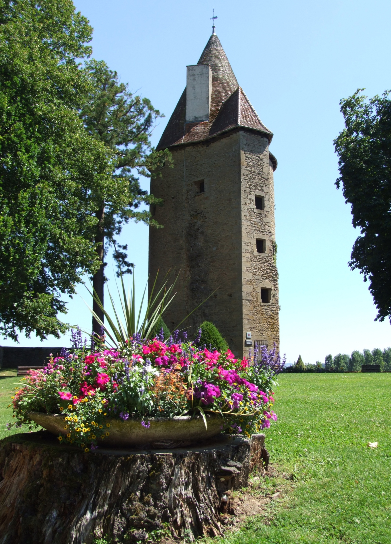 Charolles, FRANCE